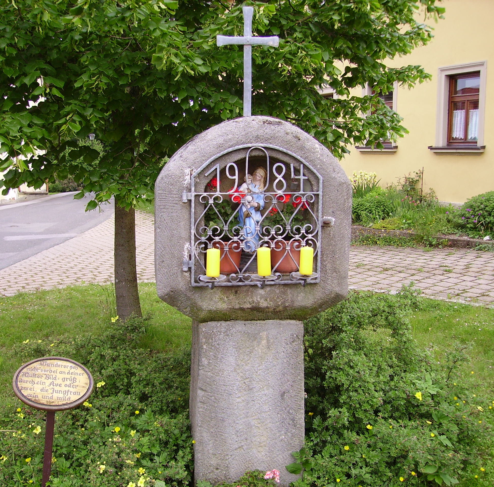 village of Marktgemeinde Heiligenstadt near Bamberg (Upper Franconia) in Germany